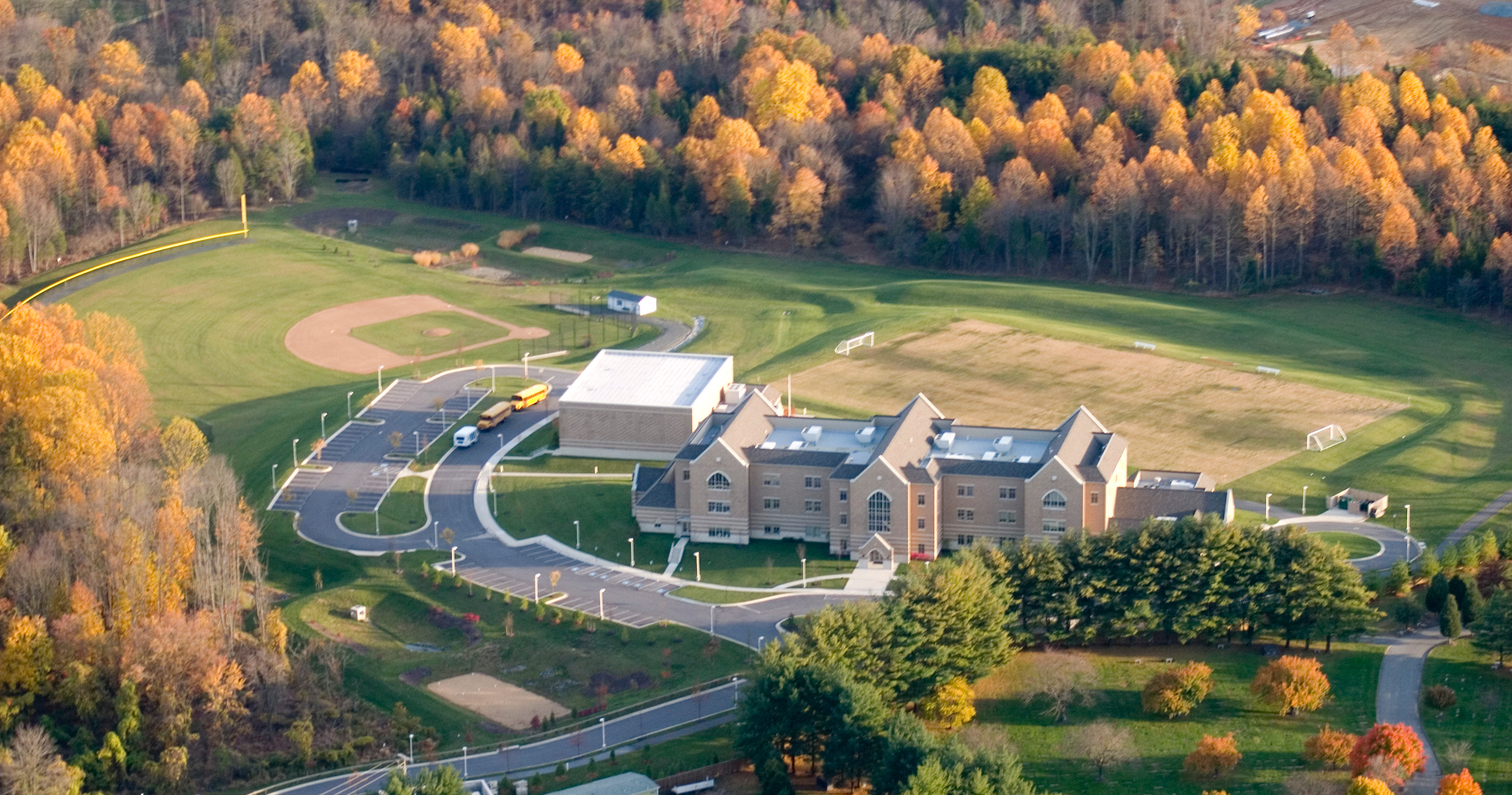 Washington Christian Academy building and grounds, taken from a Cessna N172 plane, looking from the northwest.